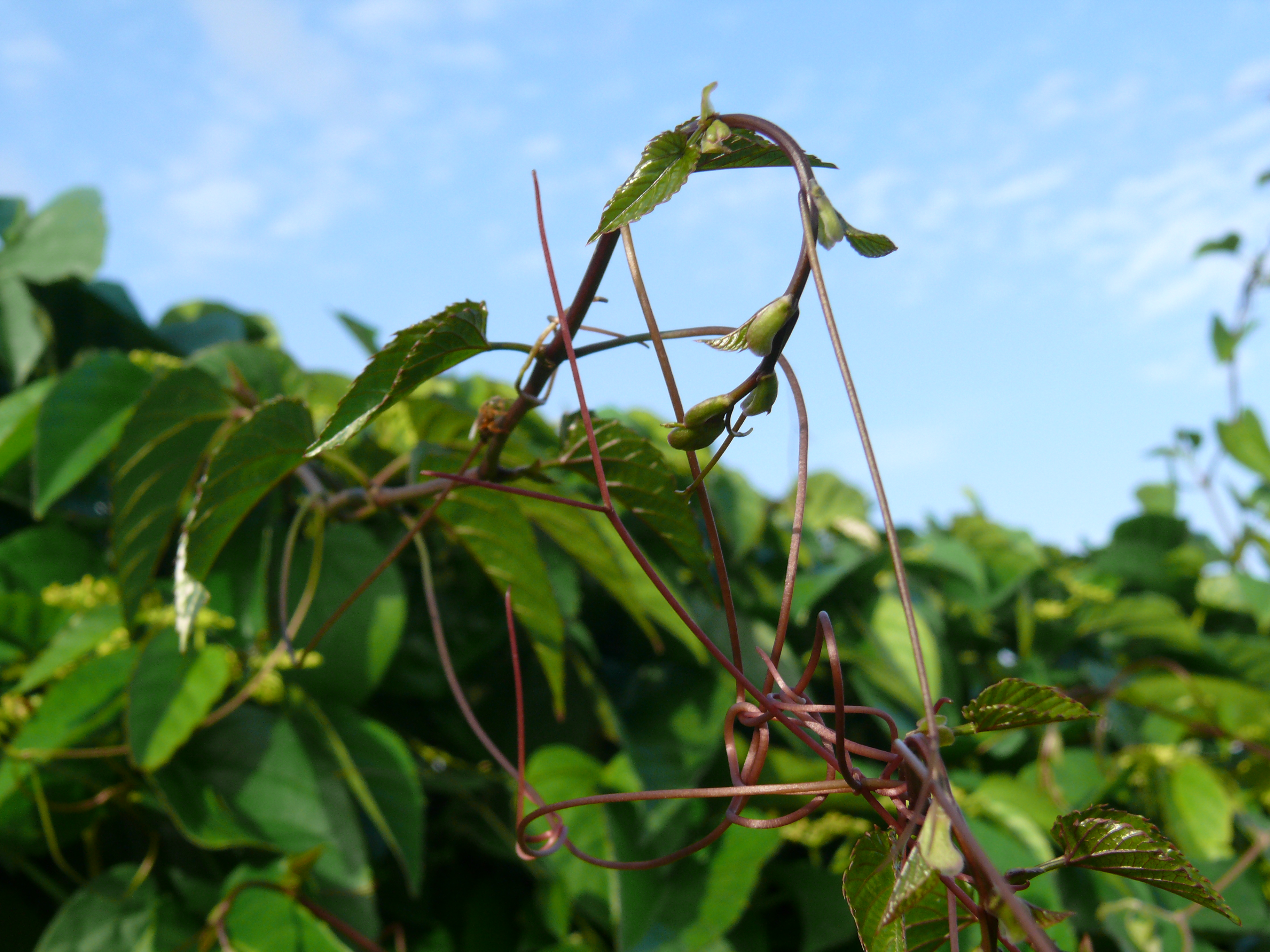 Cissus antarctica, also called "kangaroo grape" or "kangaroo vine".